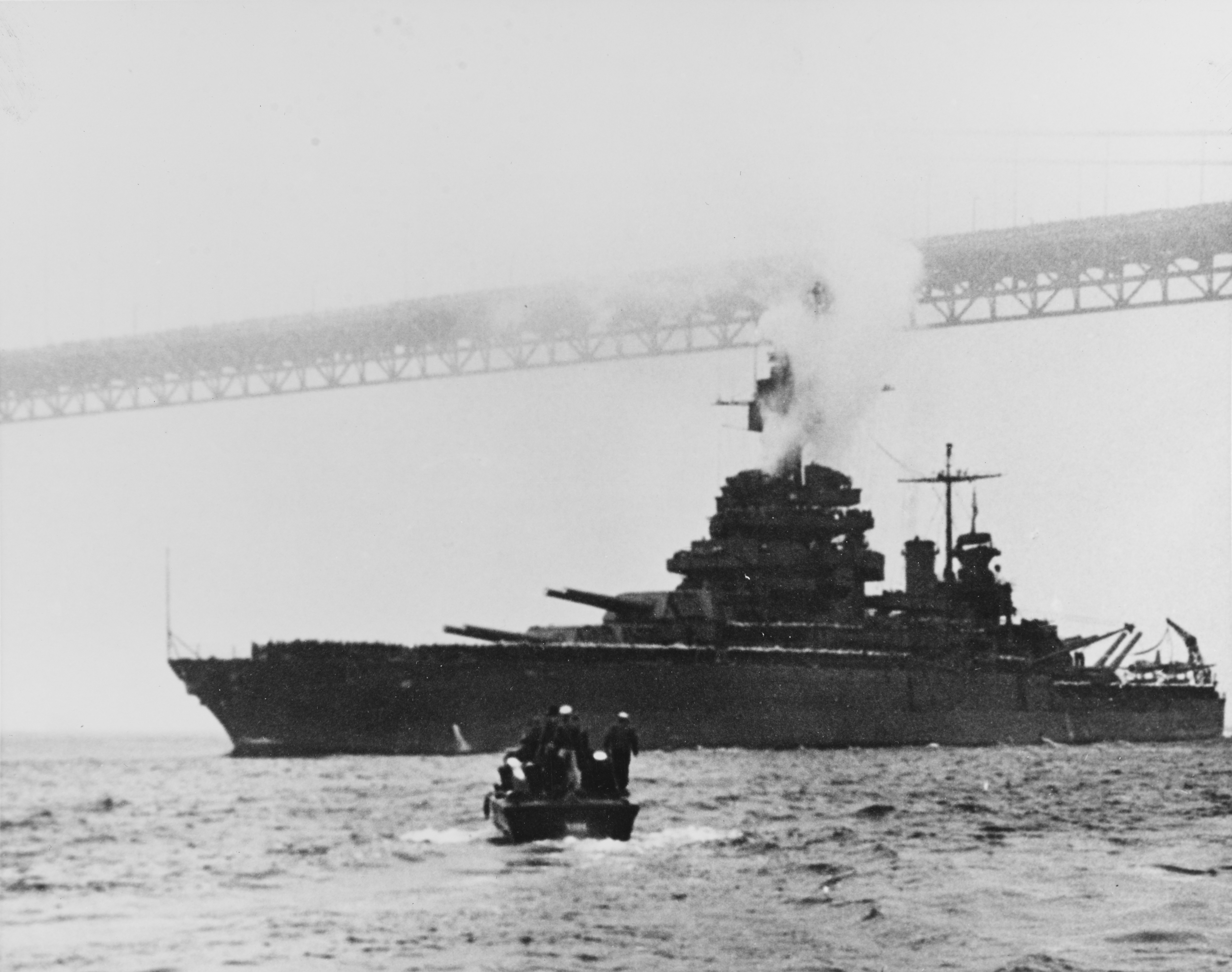 Arrives at San Francisco, California, on 15 October 1945, following the end of World War II. U.S. Naval History and Heritage Command Photograph.